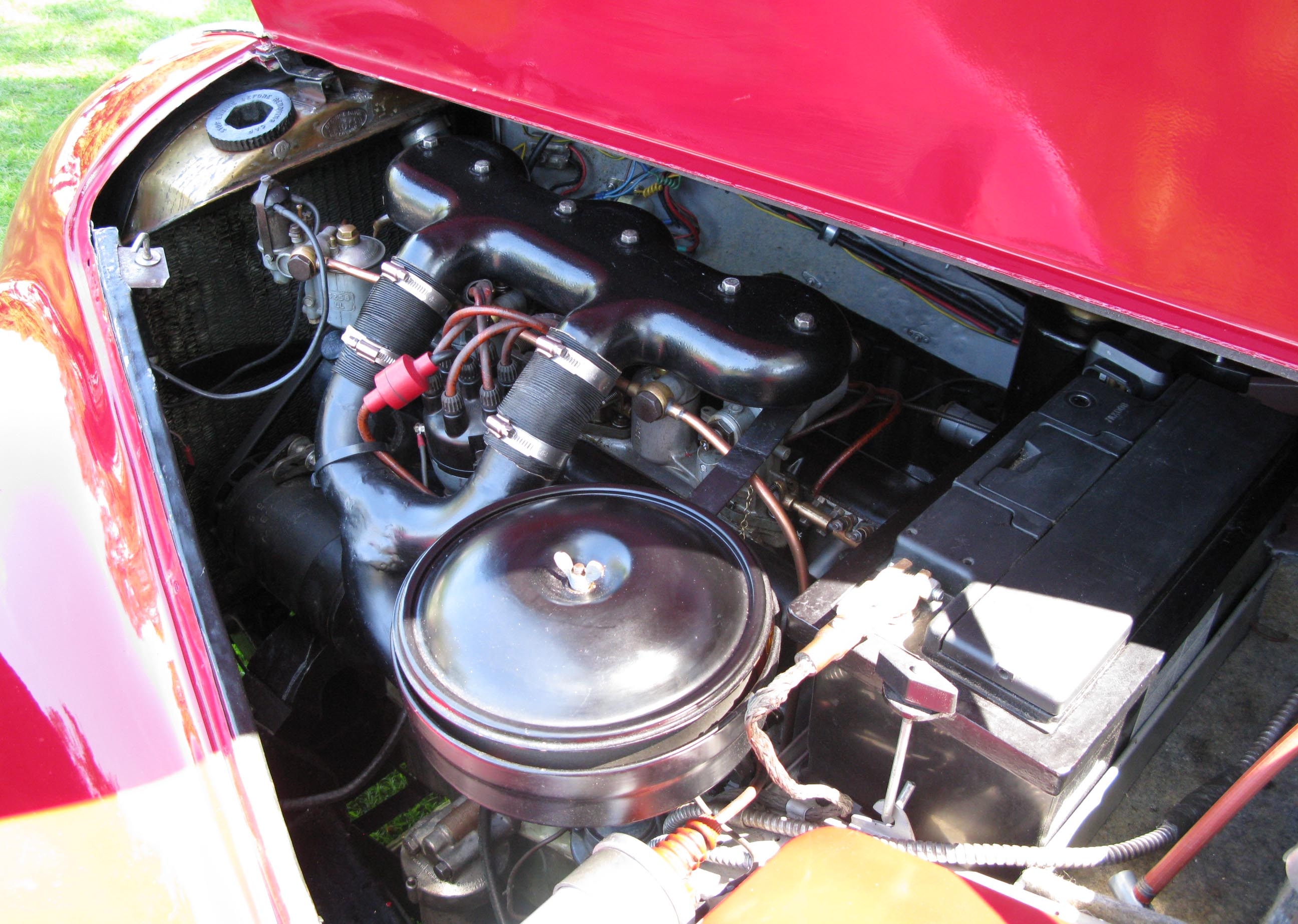 Bristol 400 engine bay. Event: Nostalgia festival, Ronneby 2012